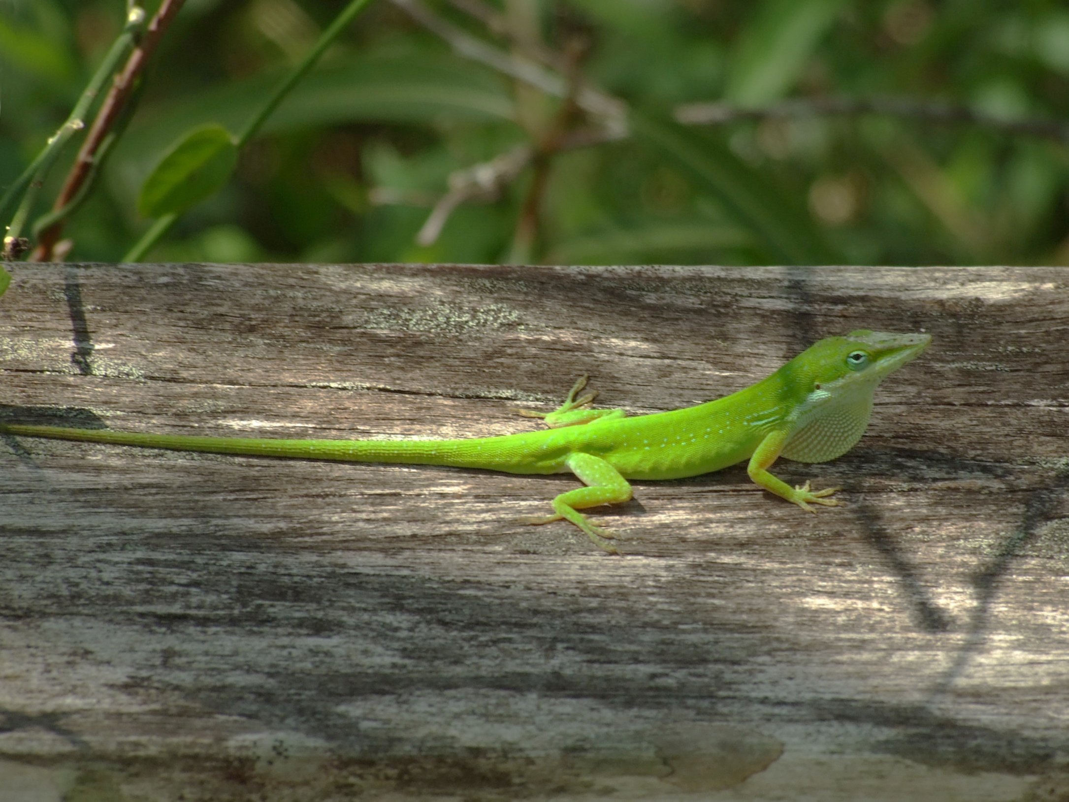 Anolis carolinensis, this is an example for the article Kontrast